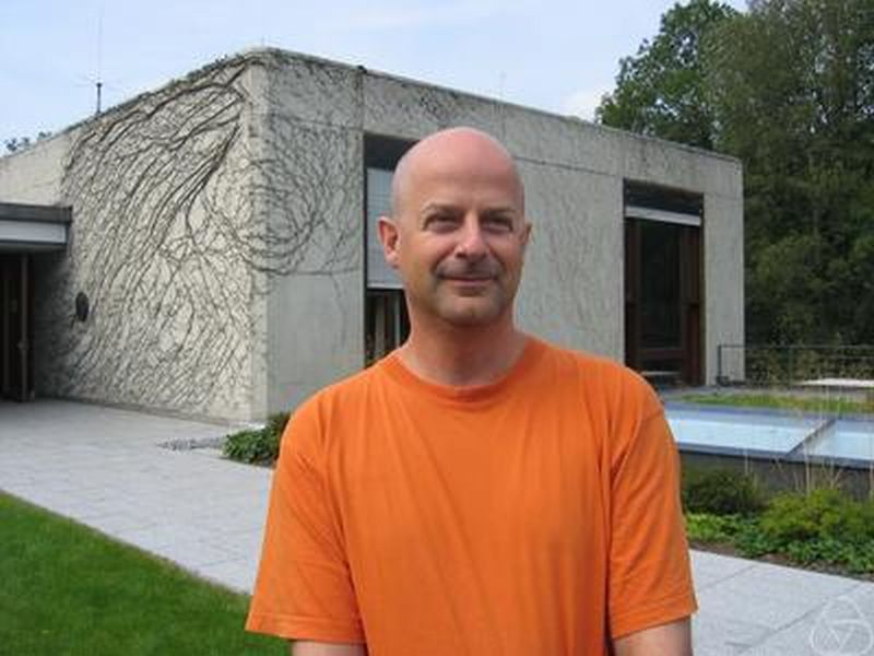 Stefano Olla, Oberwolfach 2007